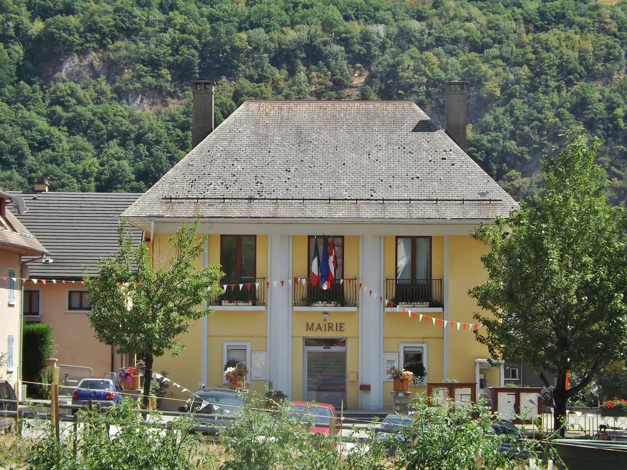 Sight of the French commune of Hermillon head of town, in Savoie.